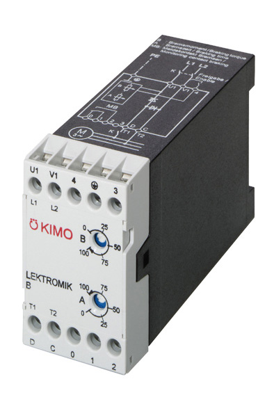 a sample of Dc injection braking